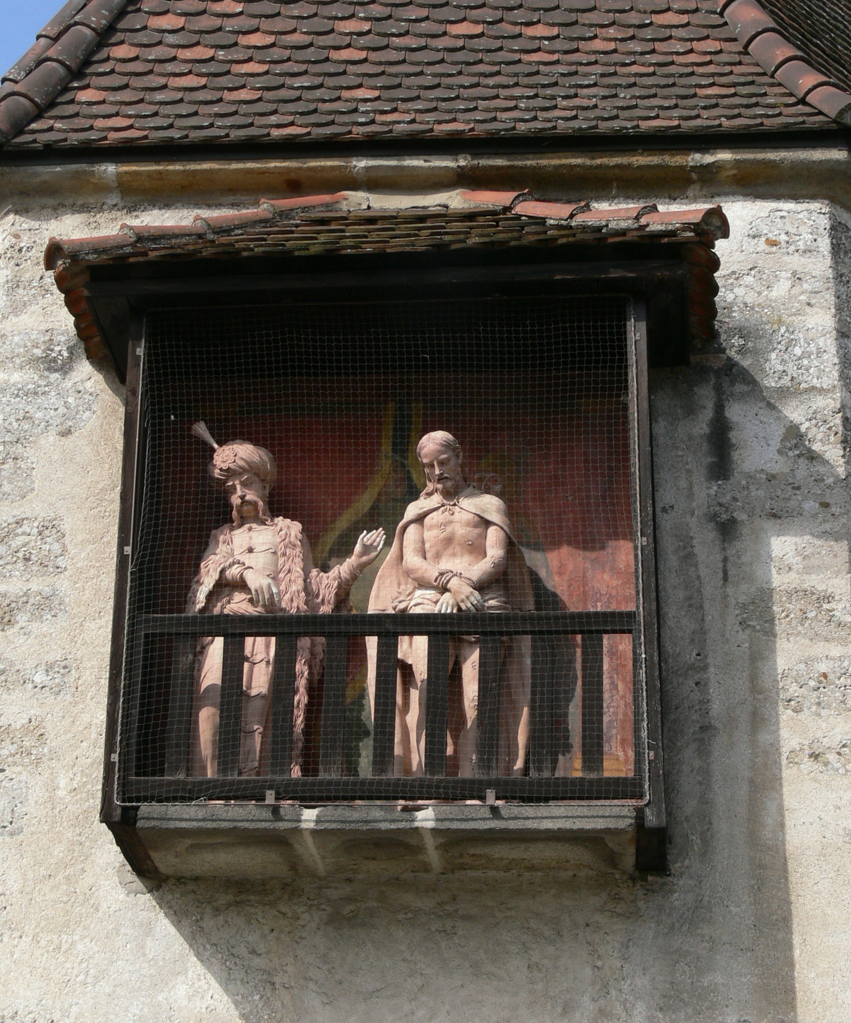 Lorch ( Enns/Upper Austria ). Ossuary ( 1507 ) near Saint Lawrence basilica - Ecce homo ( 1690 ) with Pilatus as Osman vezir.